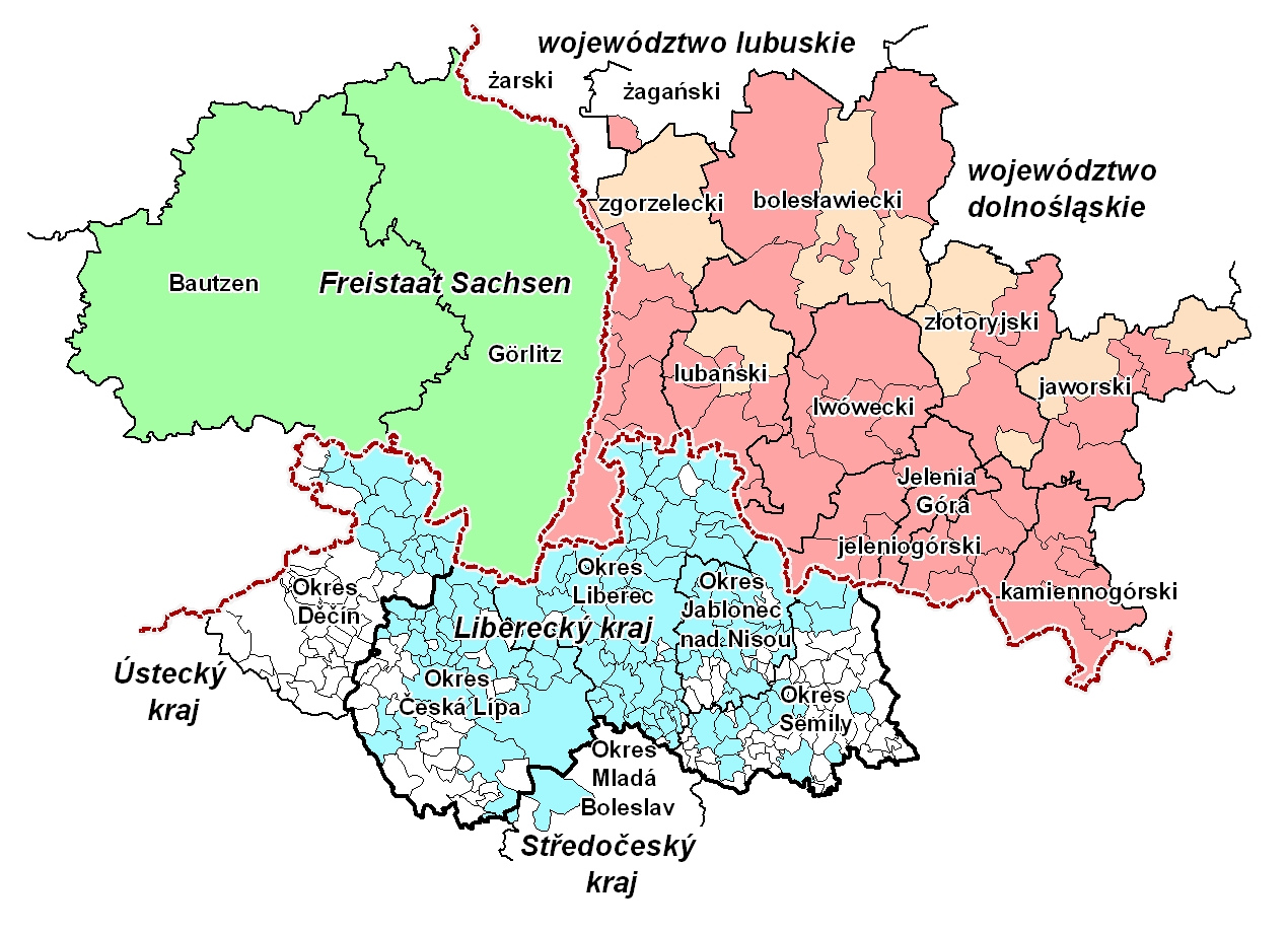 Map of Euroregion Neisse-Nisa-Nysa, participating counties and municipalities. State of 2009-12-31.